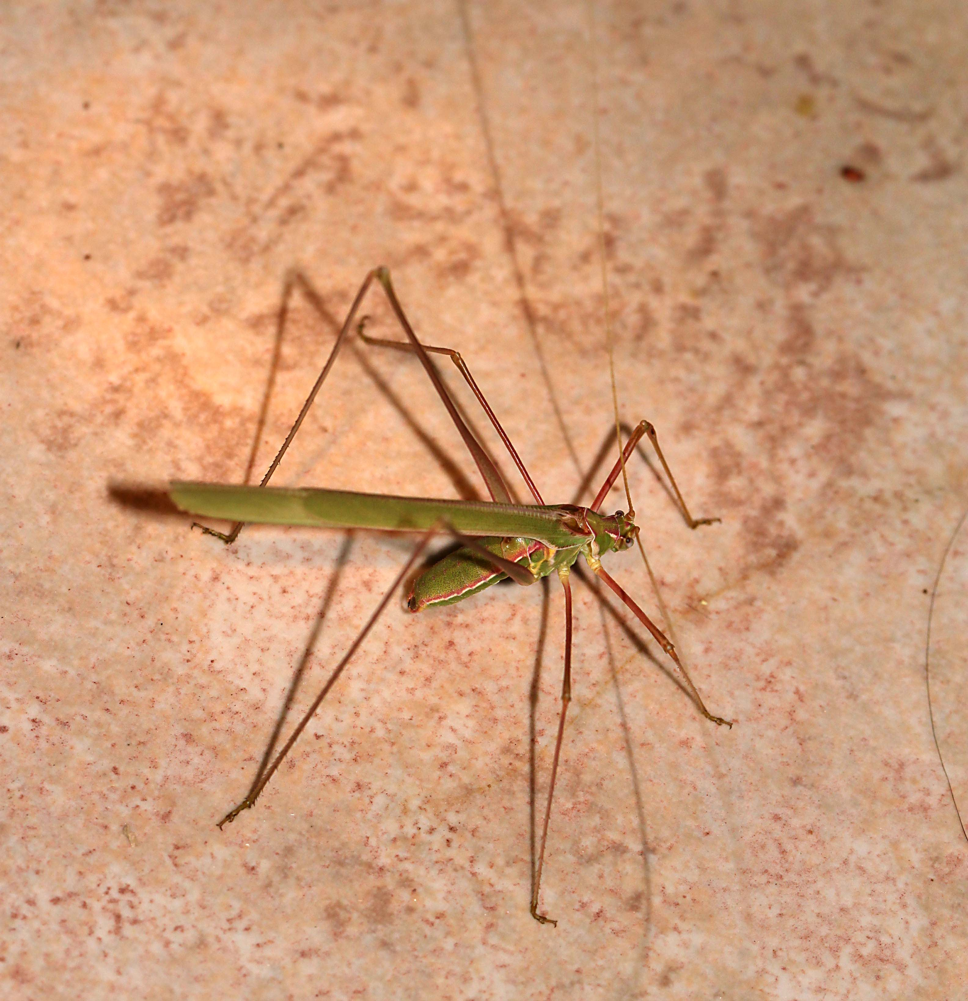 "Bugs"